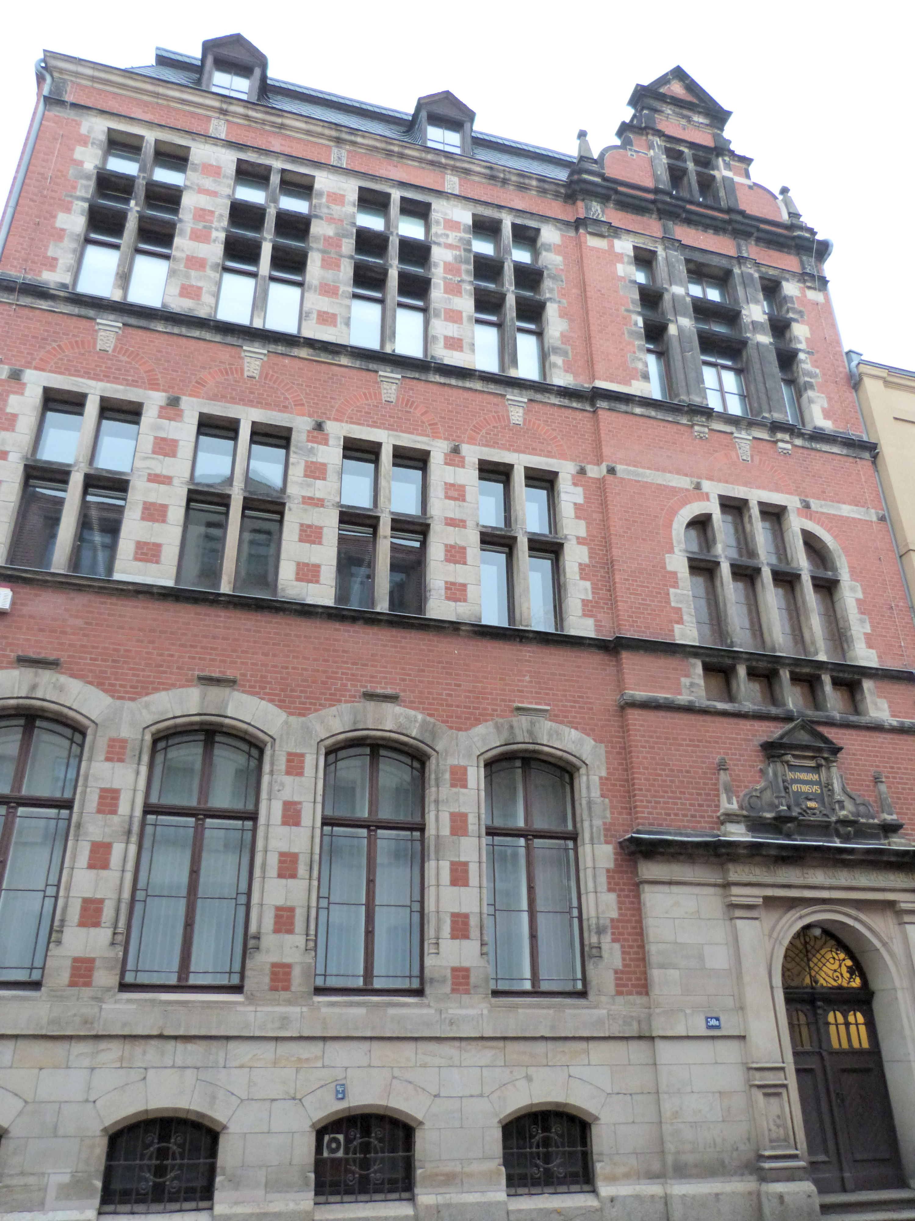 House No. 50a August Bebel-Strasse in Halle (Saale), library building of the German Academy of Sciences Leopoldina, built in 1903/1904